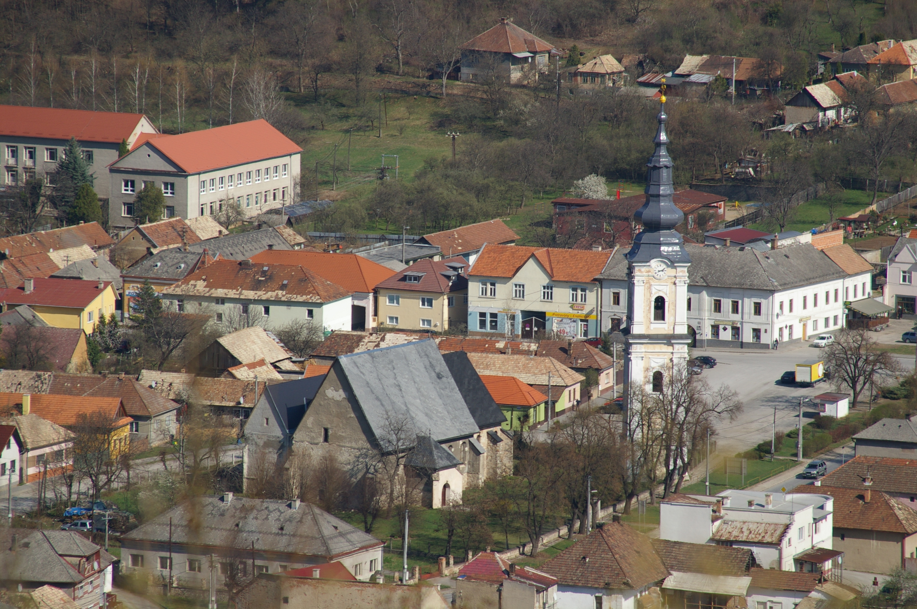 Plešivec (centre) from Koniarska planina